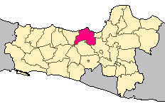 Location of Kendal Regency, Indonesia